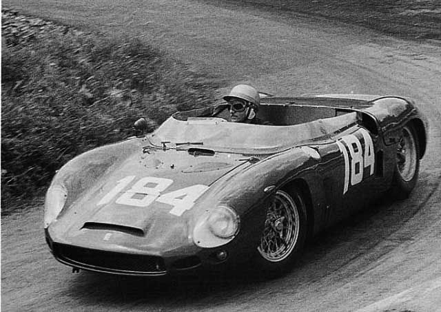 Entry #184 at Targa Florio (Sicilia) on 5 May 1963 was the 1961 Ferrari 246 SP s/n 0790 driven by Edoardo Lualdi Gabardi for Scuderia Sant'Ambroeus of Milano.[1]